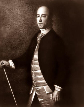 Portrait of Christopher Gadsden c. 1760-1770, by Swiss painter Jeremiah Theus. Original resides in the collection of the Charleston Museum.